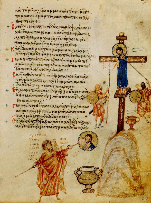 Miniature from the 9th-century Chludov Psalter with scene of iconoclasm. Iconoclasts John Grammaticus and Anthony I of Constantinople.